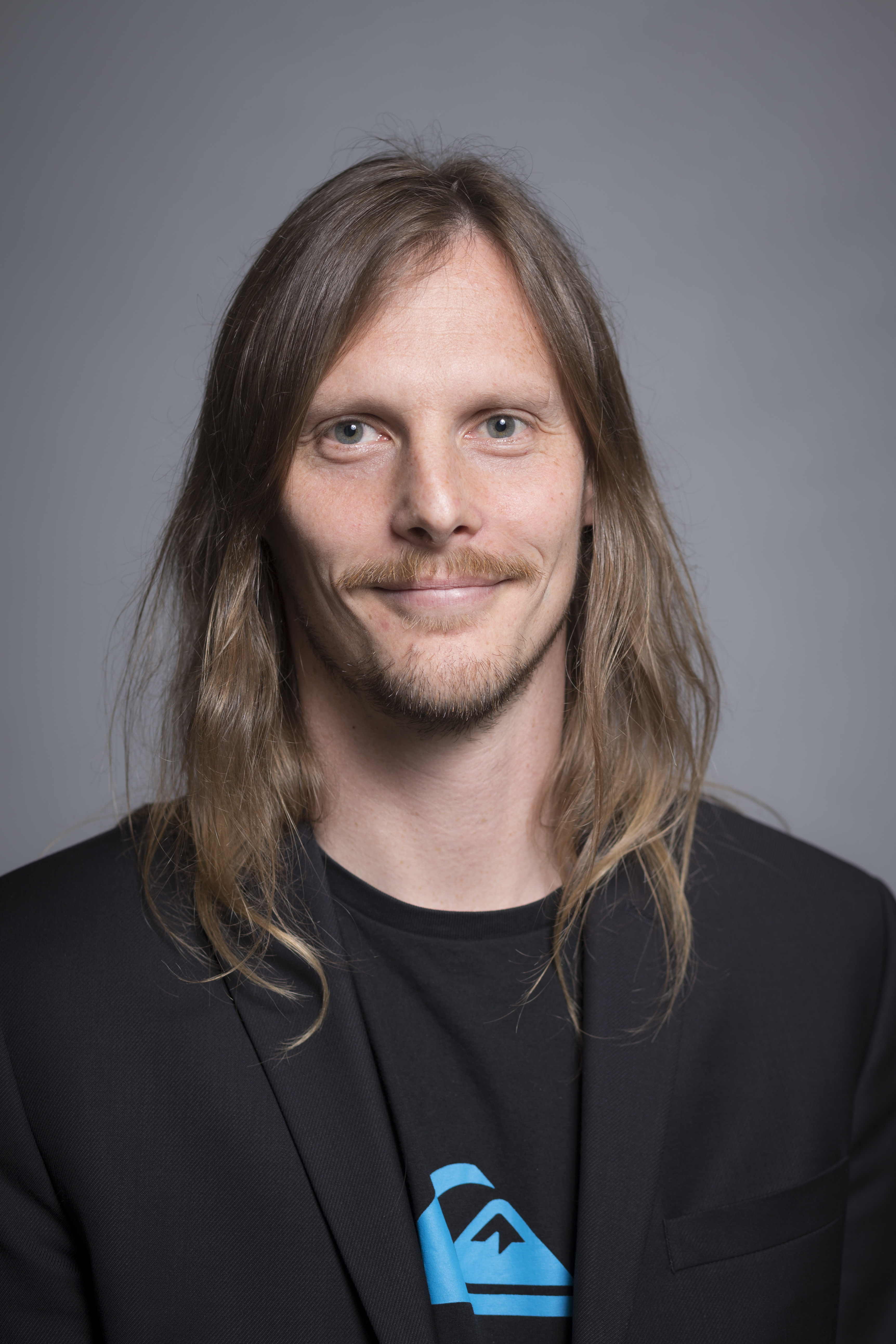 Trondheim 03.06.2016 : Dennis Meier, Onsager Fellow and Associate Professor, Department of Materials Science and Engineering, Norwegian University of Science and Technology. Photo: Thor Nielsen.